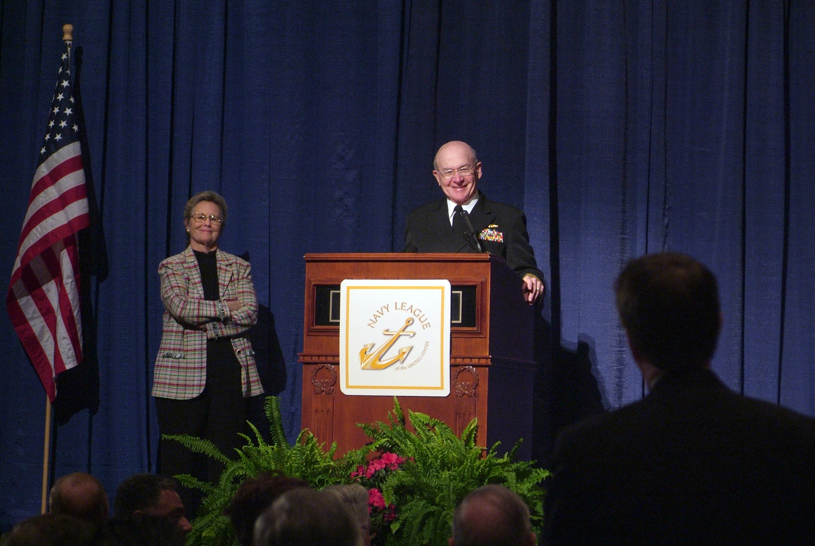 Washington, D.C. (Mar. 24, 2005) – Chief of Naval Operations (CNO) Adm. Vern Clark shares the stage with the National President of the Navy League of the United States, Sheila M. McNeill, as he answers questions from attendees of the 2005 Sea Air Space Exposition luncheon hosted by the Navy League. U.S. Navy photo by Chief Photographer's Mate Johnny Bivera (RELEASED)